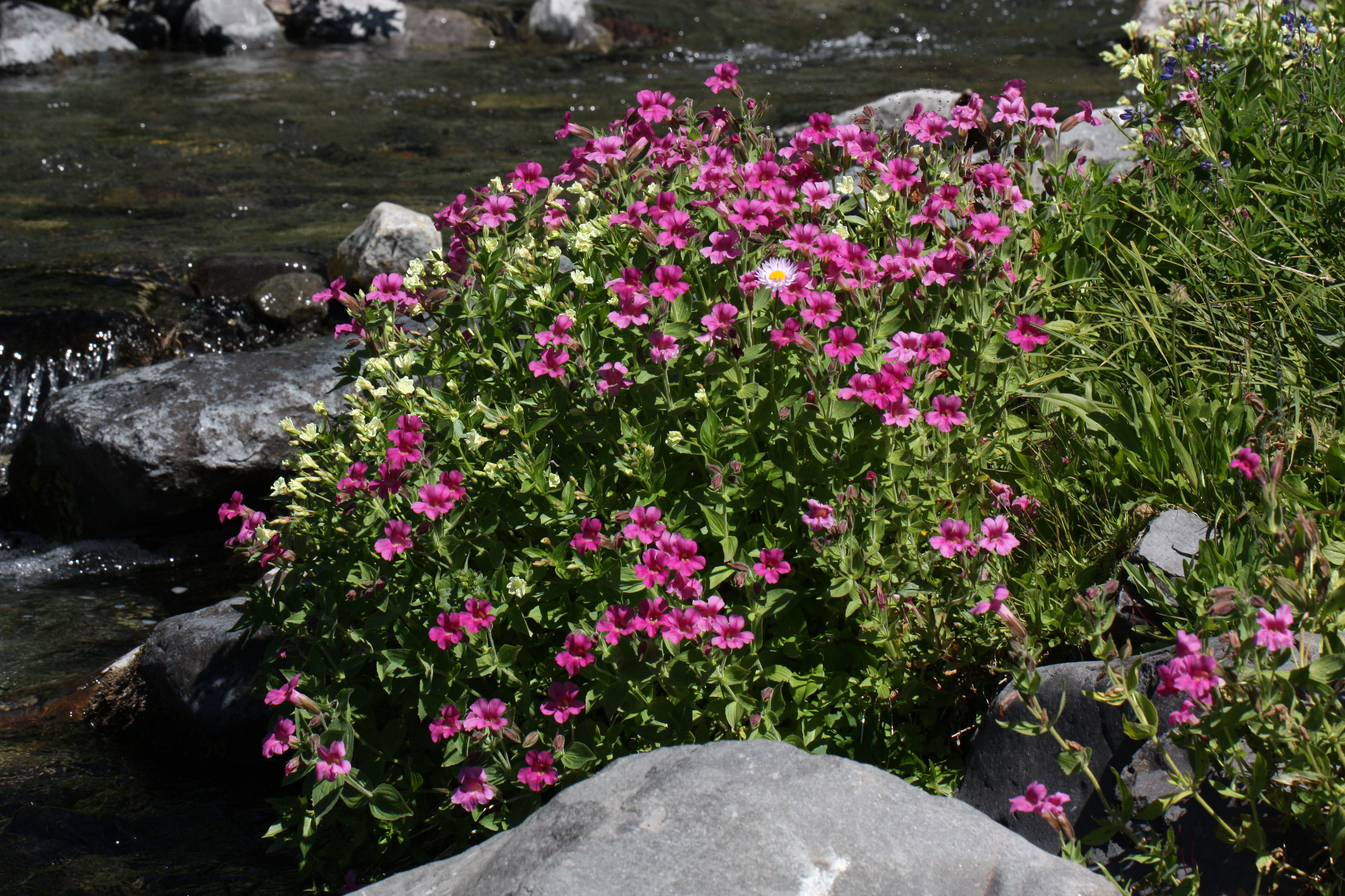 Purple Monkey-flower